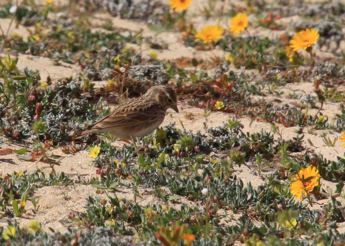 Lesser Short-toed Lark on Fuerteventura, Canary Islands, Spain.